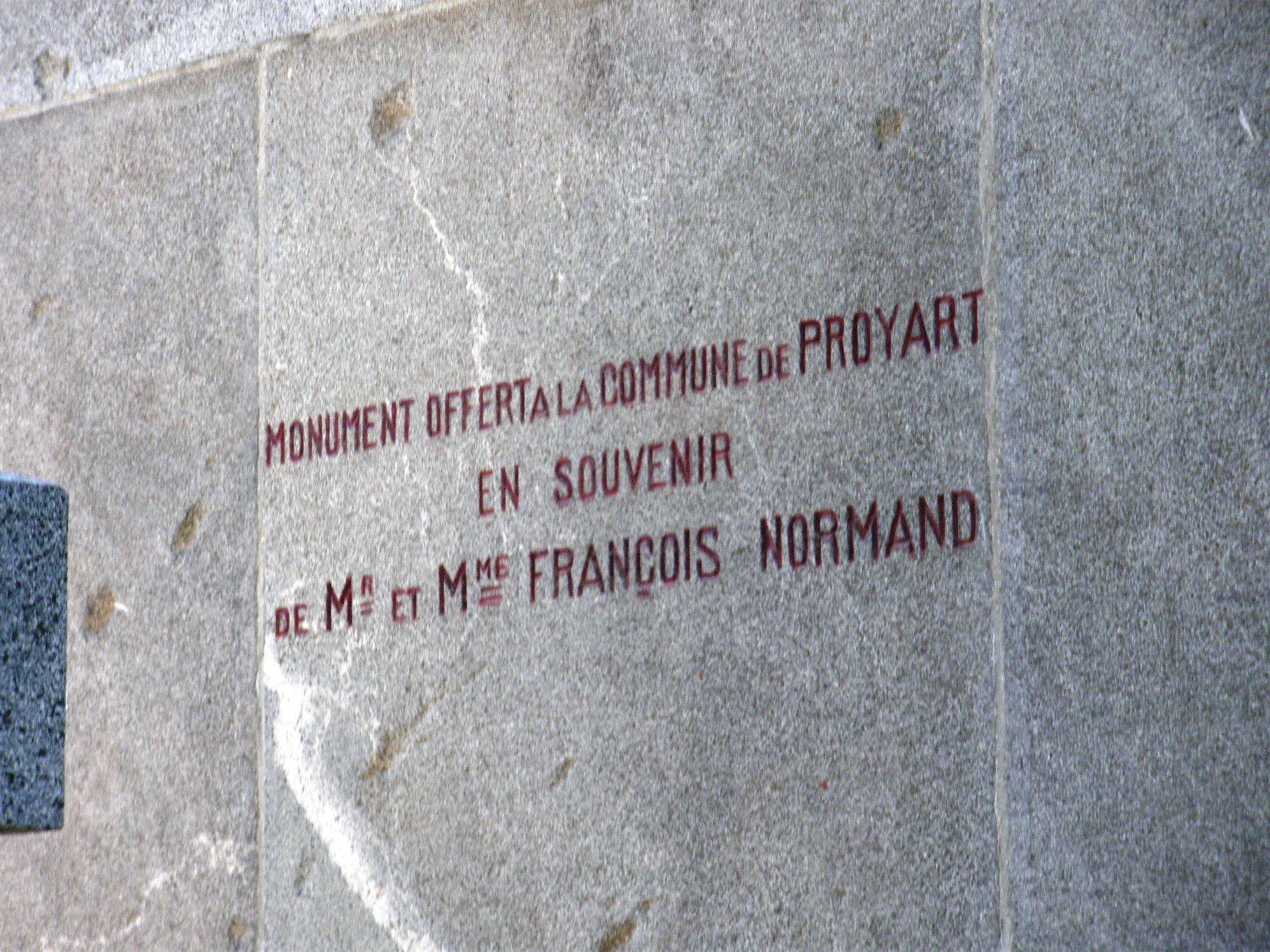 Plaque on the monument aux morts at Proyart regarding Mr.and Mrs.Francois Normand